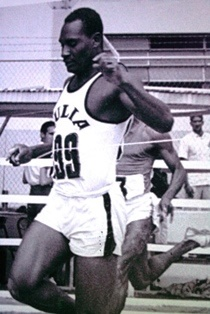 Just an old picture or Arquímedes Herrera winning a race.